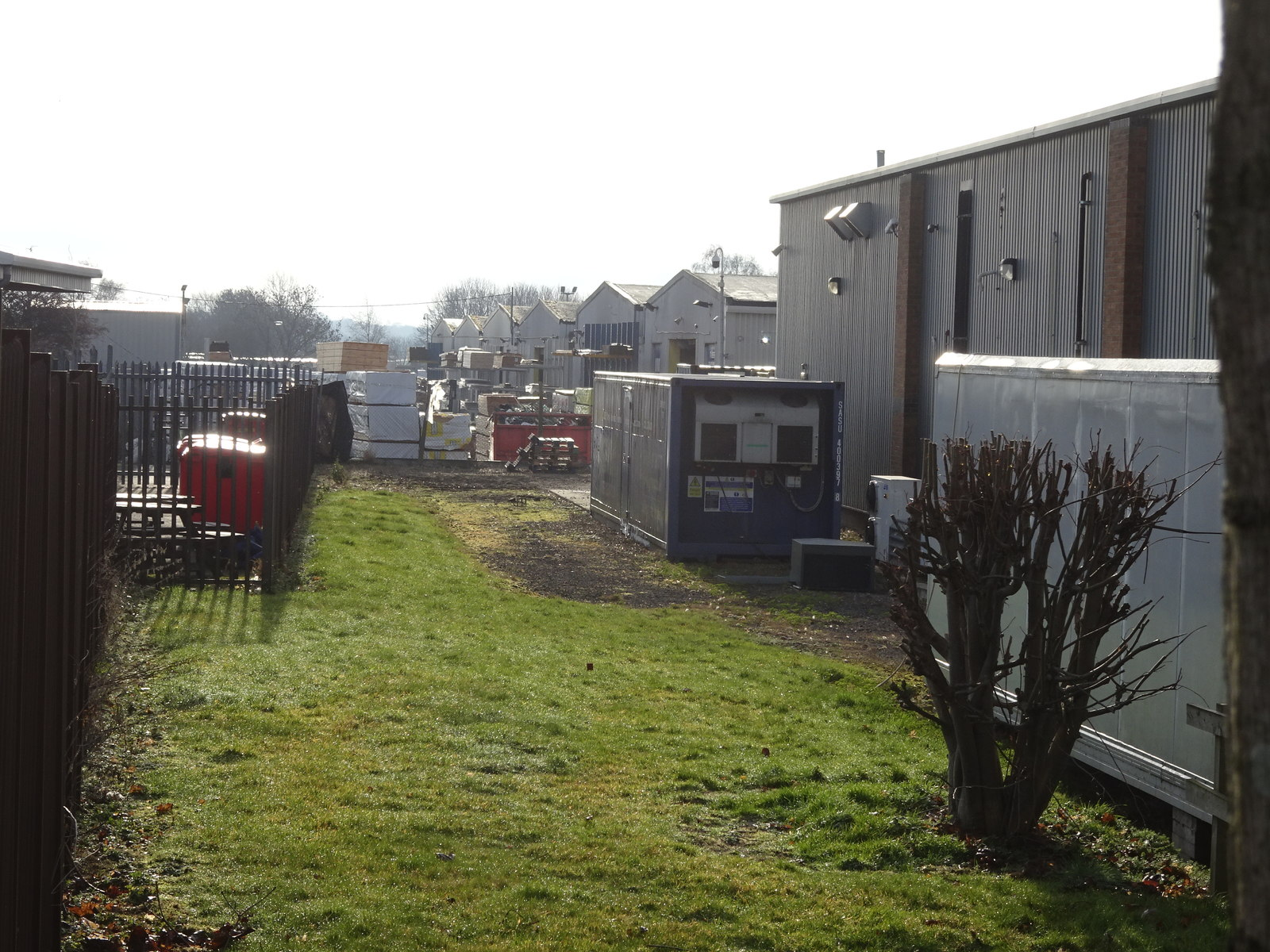 Brompton Road 2nd railway station (site), YorkshireOpened in 1943 by the Catterick Camp Military Railway, this station closed in 1964. It had replaced an earlier station immediately behind the camera position. View south towards Catterick Camp Central, standing on the former track-bed. The single platform would have been just to the left. All evidence of a railway here has been obliterated by later industrial premises.